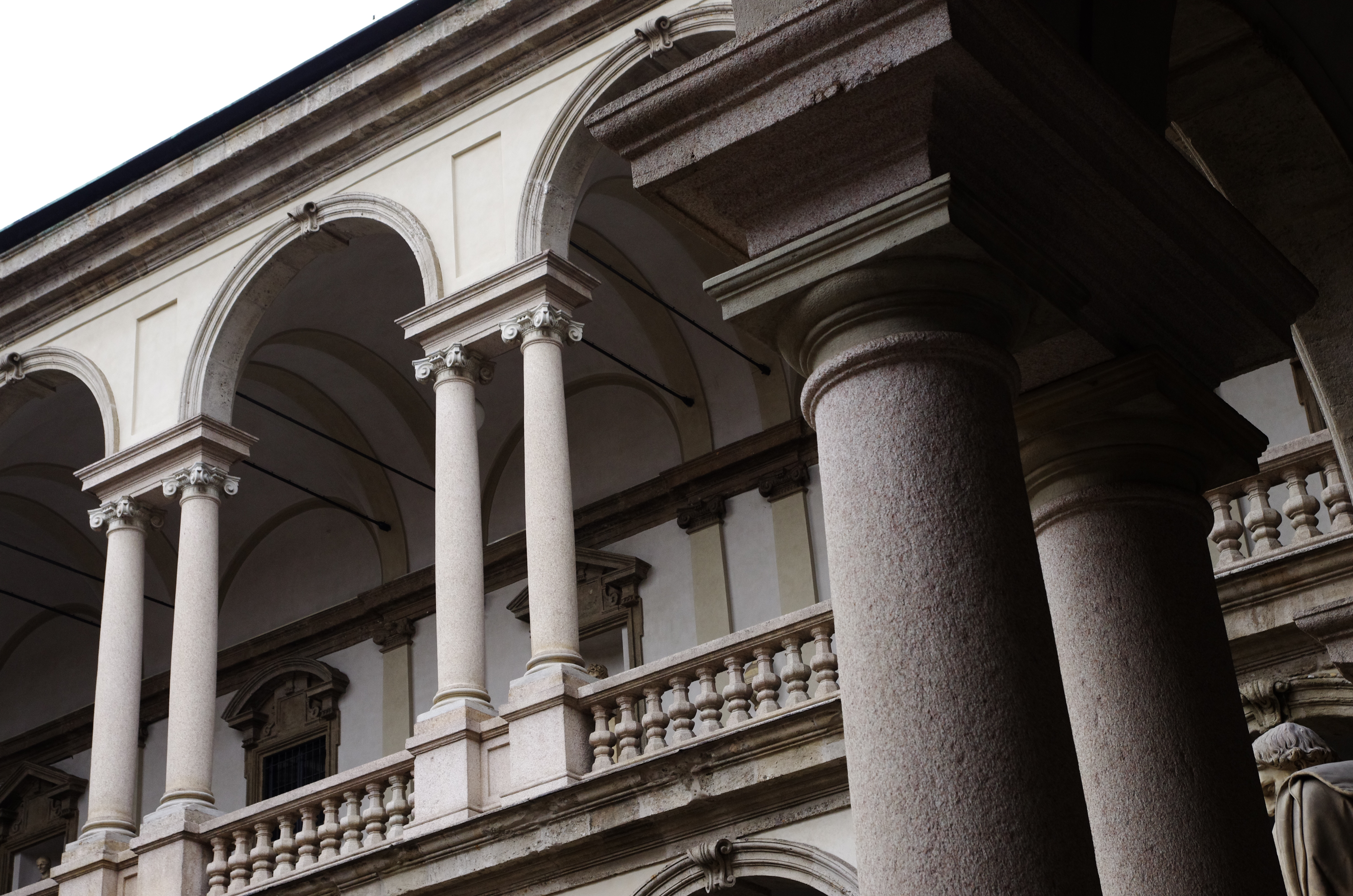 2014 02 13 14 09 50 Milano ITALY Pinacoteca di Brera loggia e colonnato del cortile Courtyard ordine tuscanico e ionico Tuscan and ionic order serliana The Palladian, or Serlian, arch or window photo Paolo Villa